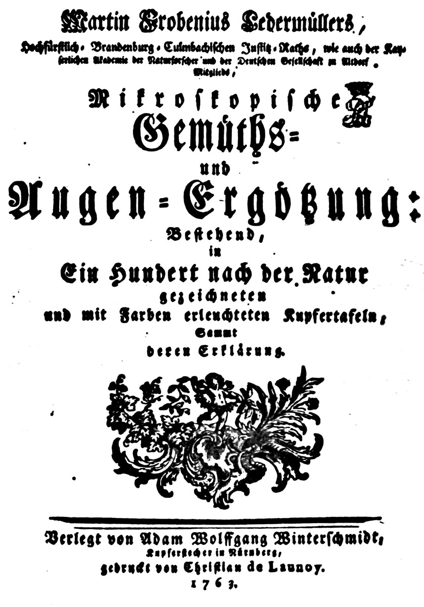 This is a scan of the historical document